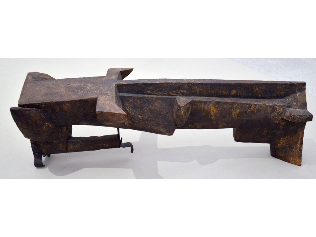 Zbyněk Sekal, Plough (1962), patinated plaster, National gallery, Prague